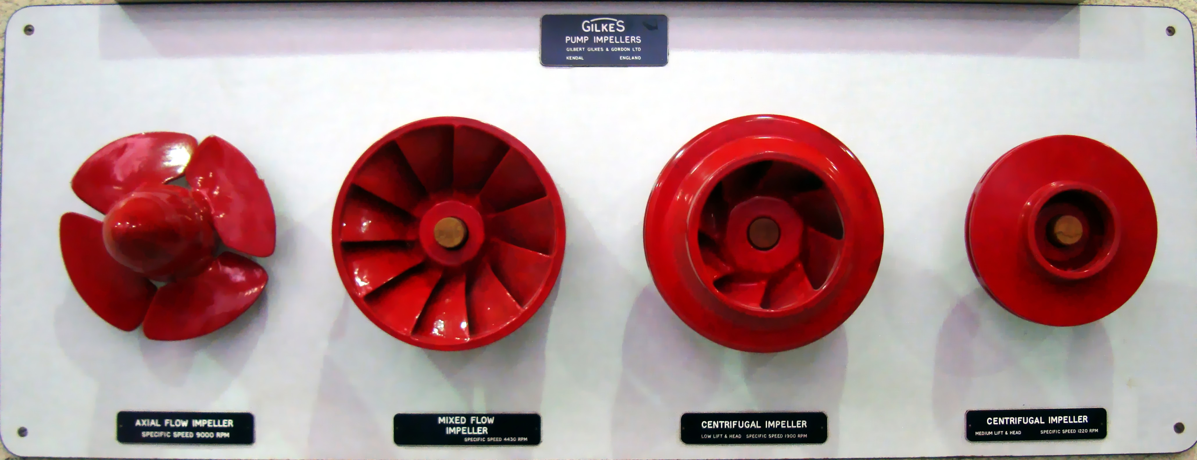 Pump Impellers. From left to right: Axial Flow Impeller - Specific speed 9000 rpm Mixed Flow Impeller - Specific speed 4430 rpm Centrifugal Impeller - low lift & head Specific speed 1900 rpm Centrifugal Impeller - medium lift & head Specific speed 1220 rpm